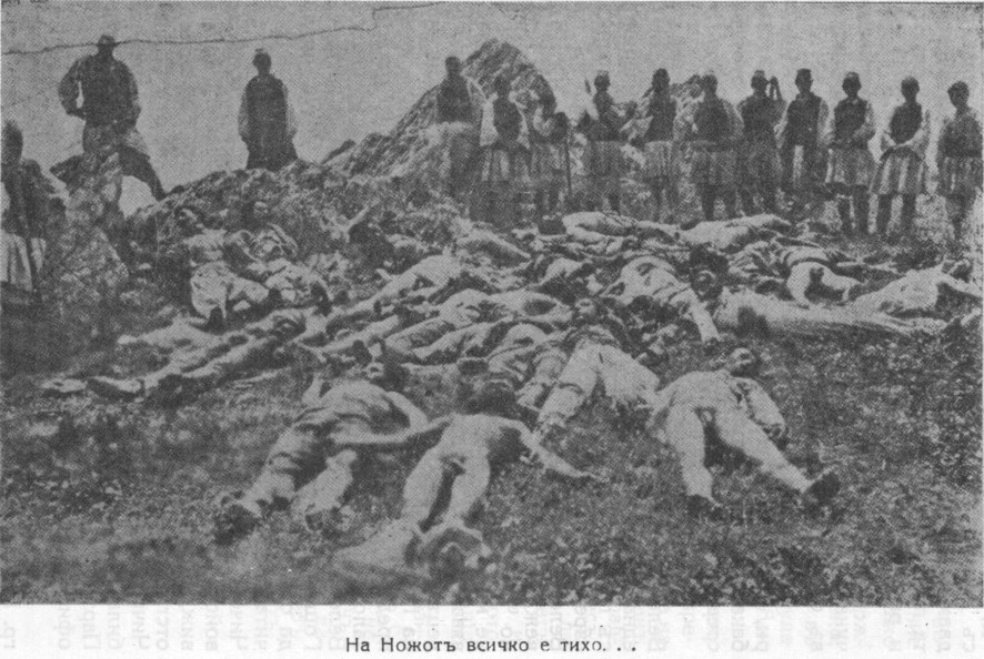 Dead Chetniks on Nojot Peak